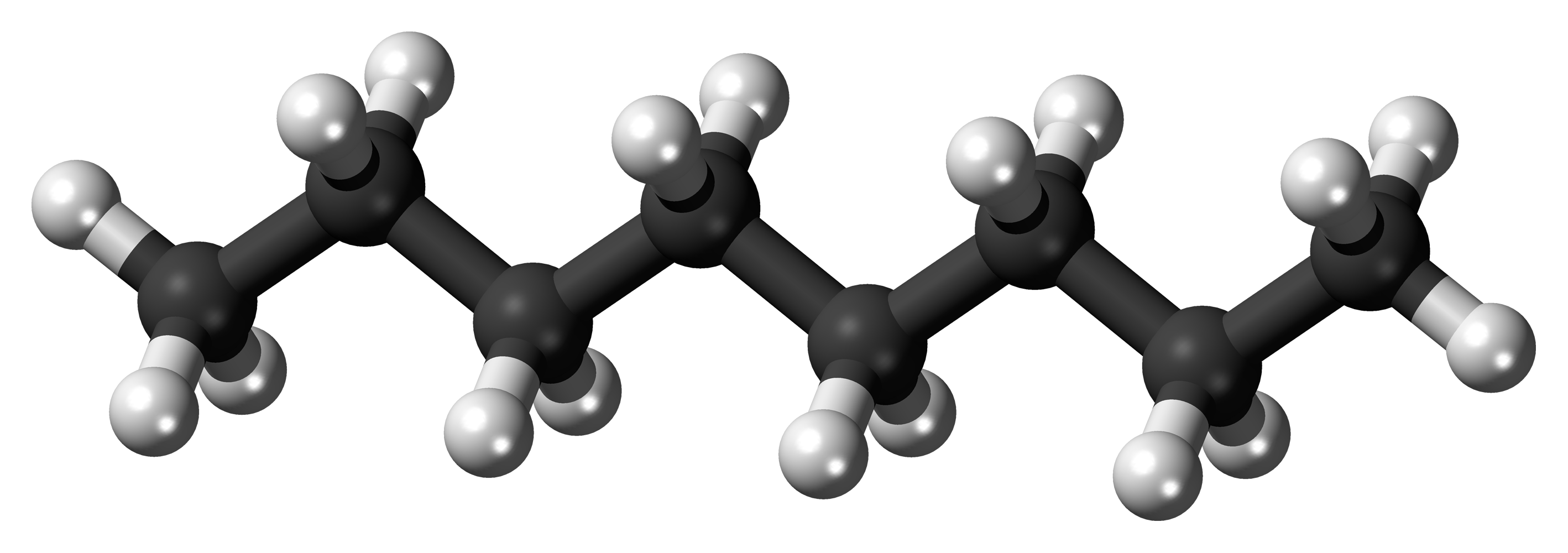 Ball-and-stick model of the octane molecule, an alkane with eight carbon atoms, and a major component of petrol. Color code: Carbon, C: black Hydrogen, H: white